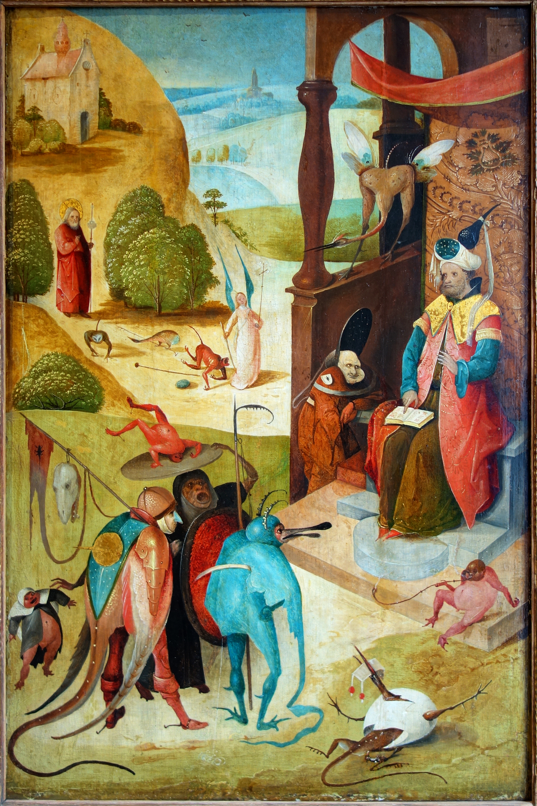 Reverse of a two sided painting. See An Antonian Priory (Musée des Beaux-Arts de Valenciennes).jpg for the front.